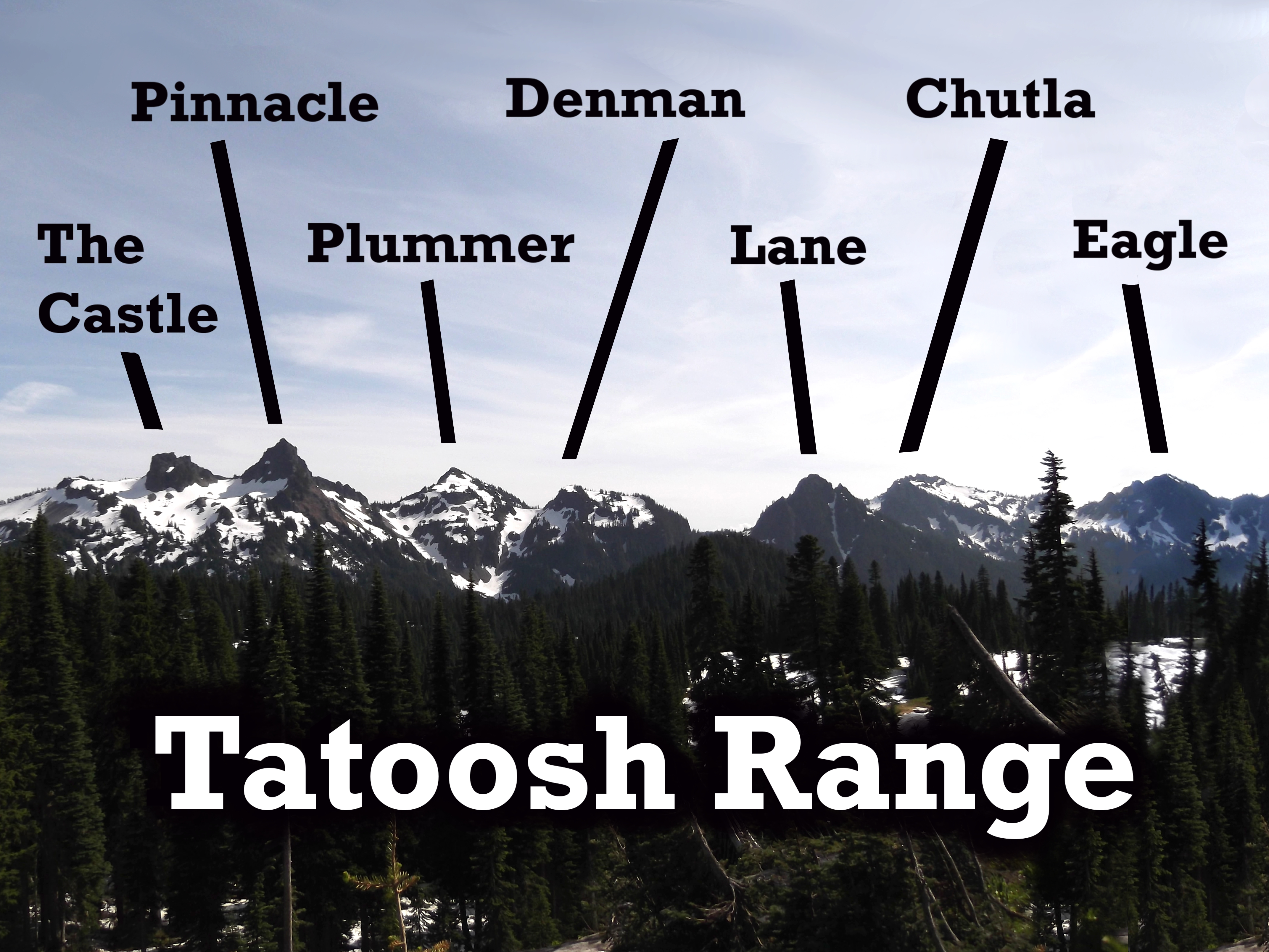 Seven of the thirteen peaks in the Tatoosh Range at the Mount Rainier National Park.